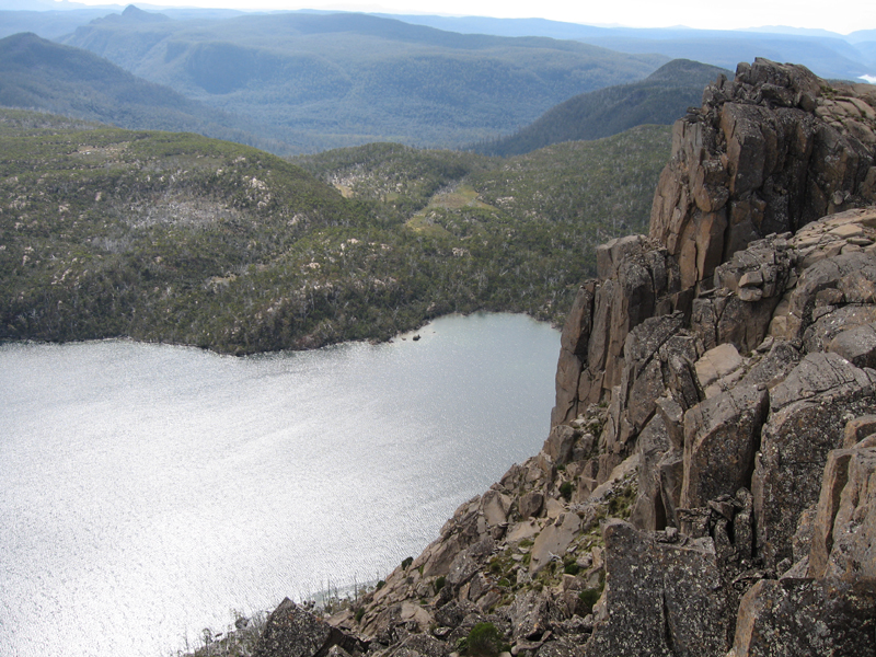 Looking down on Lake Myrtle from near the summit of Mount Ragoona, Tasmania, Australia